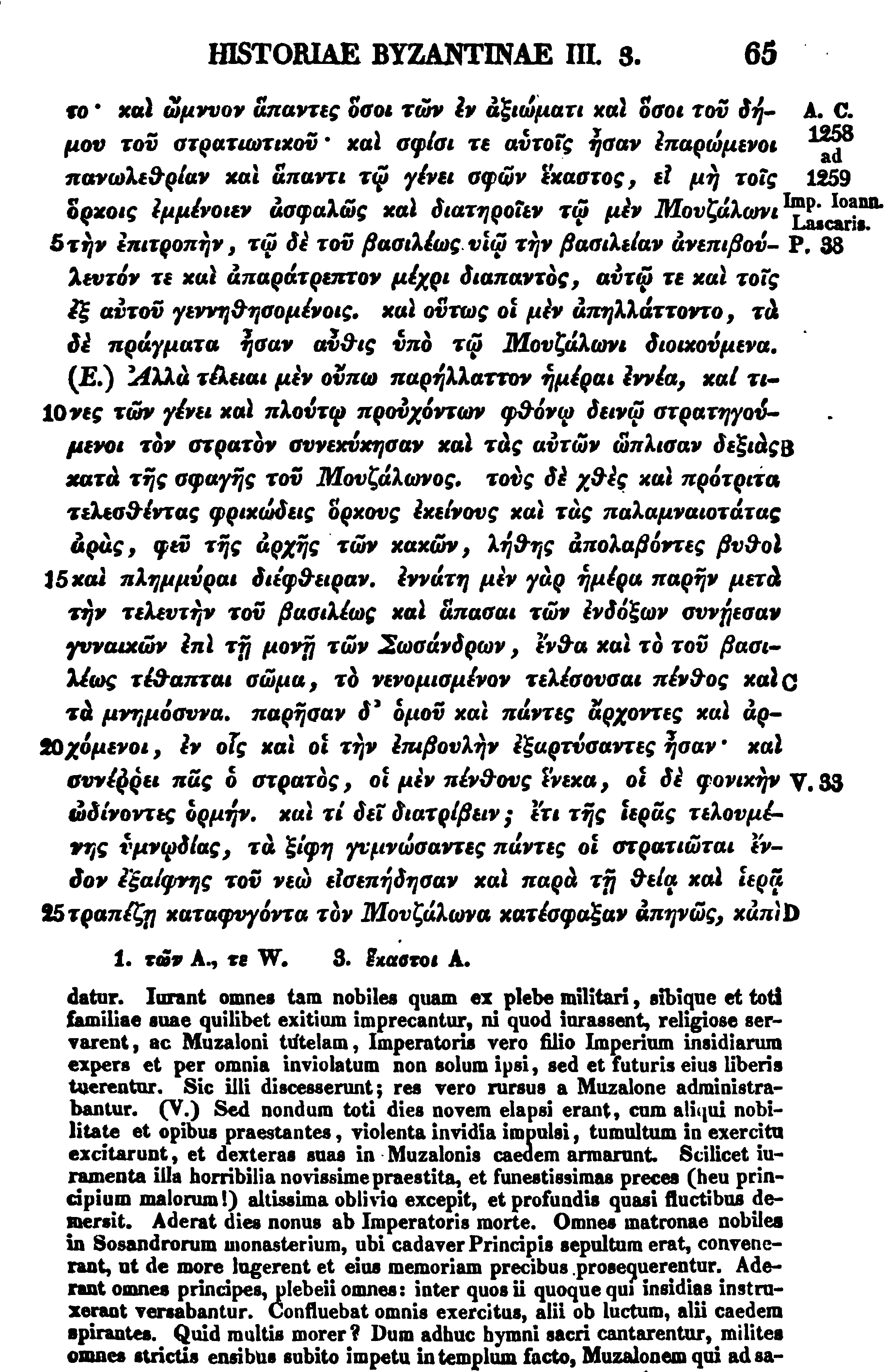 A page from the Corpus Scriptorum Historiae Byzantinae edition of Nikephoros Gregoras (vol. 1, ed. L. Schopen, Bonn: 1829), showing the parallel Greek text and Latin translation of Gregoras' "History."